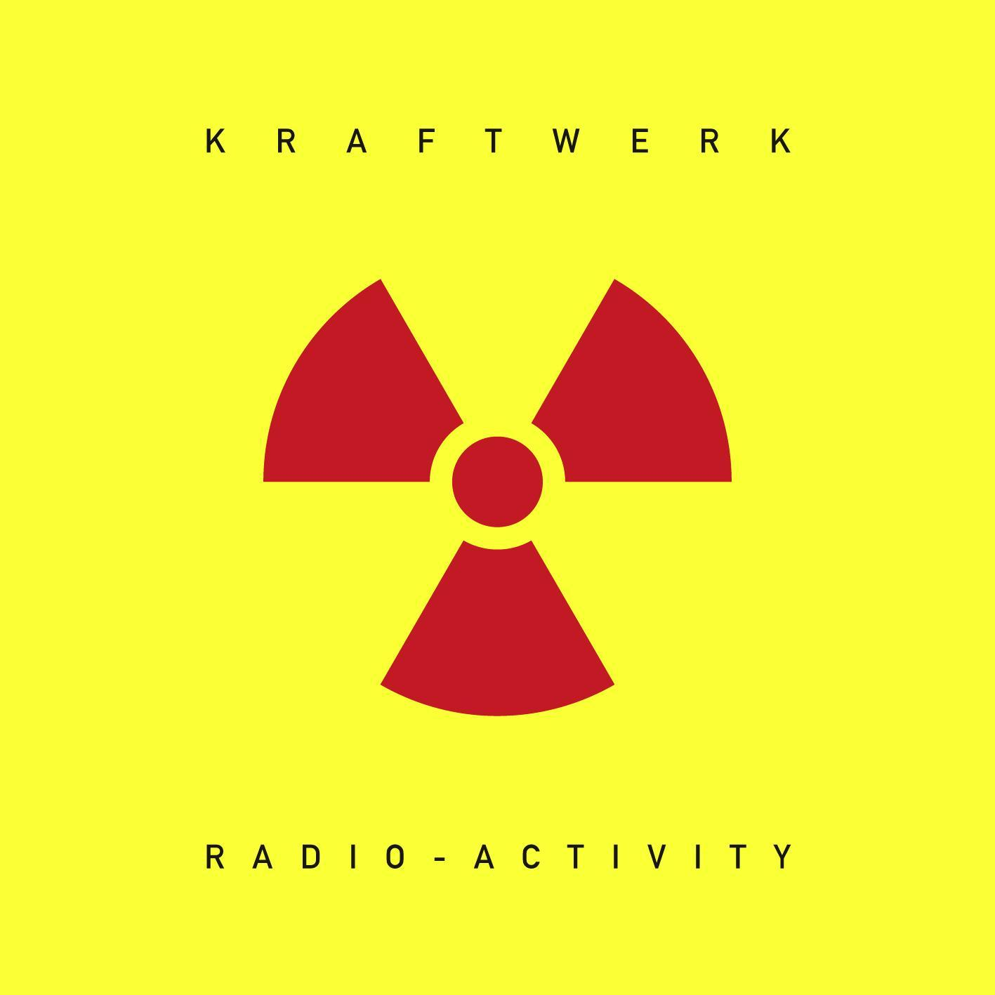 Album cover used on the 2009 remastered edition of Radio-Activity by Kraftwerk.